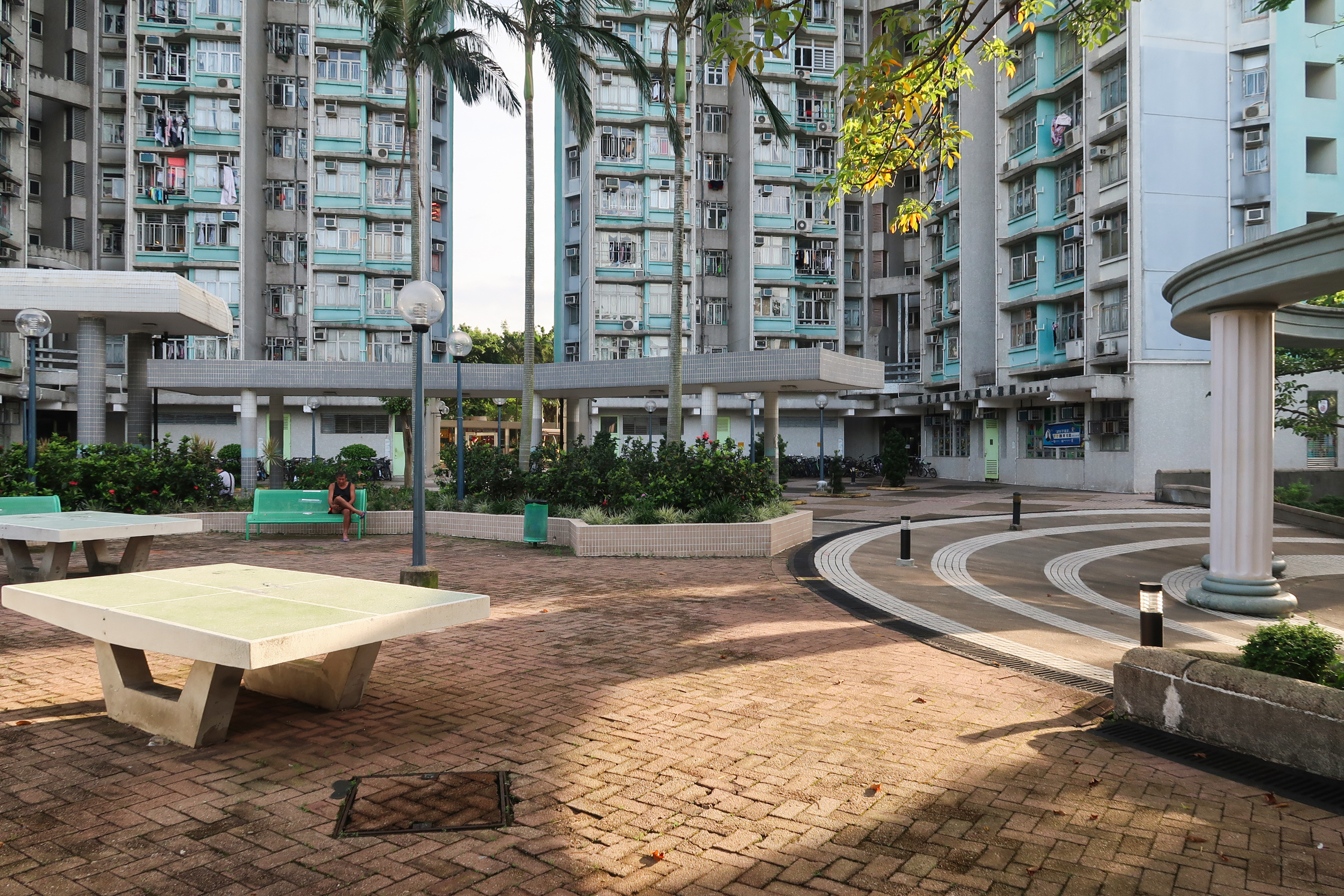 Ka Shing Court open space